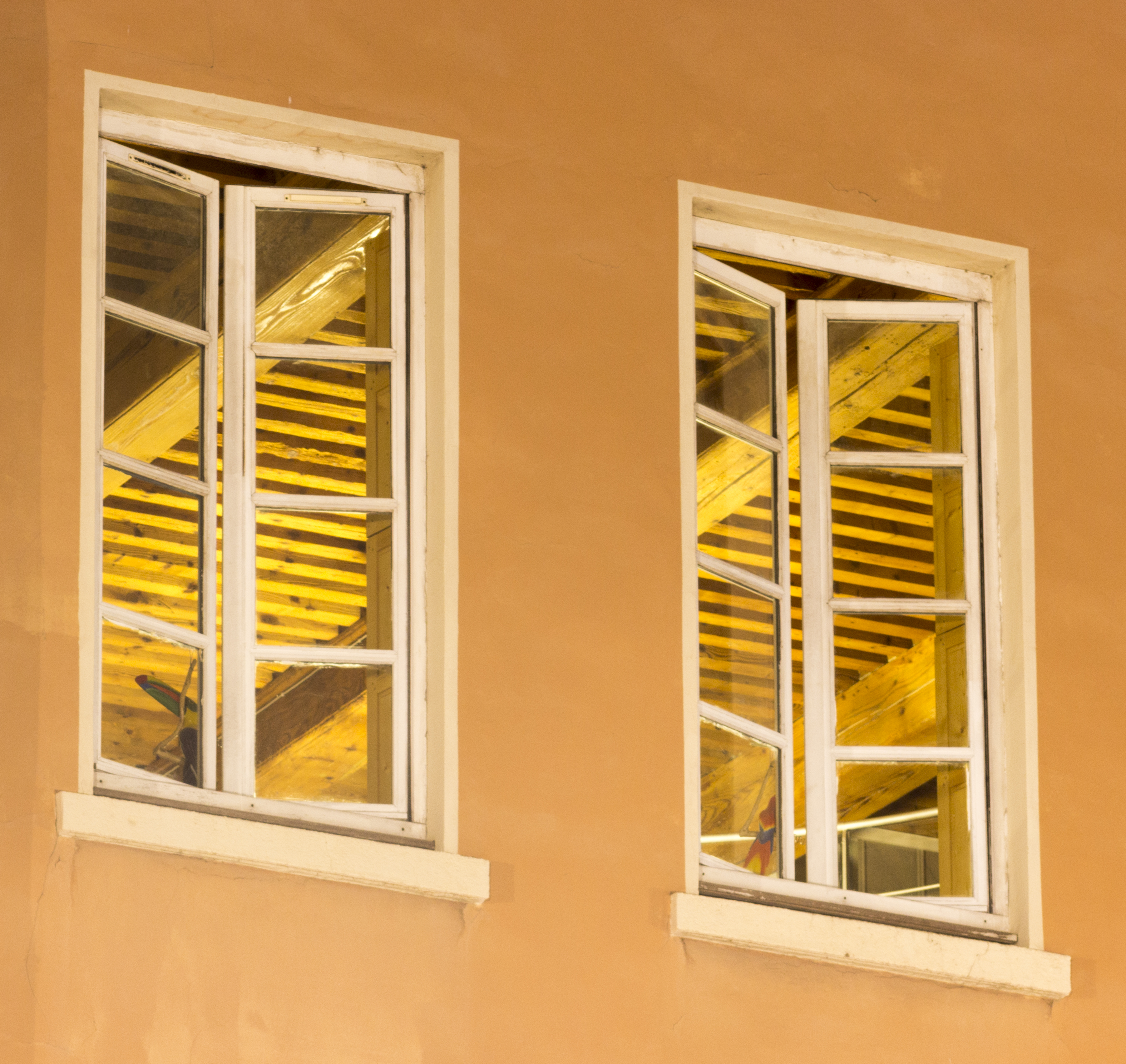 Details of Canut windows from Maison Brunet in Lyon.